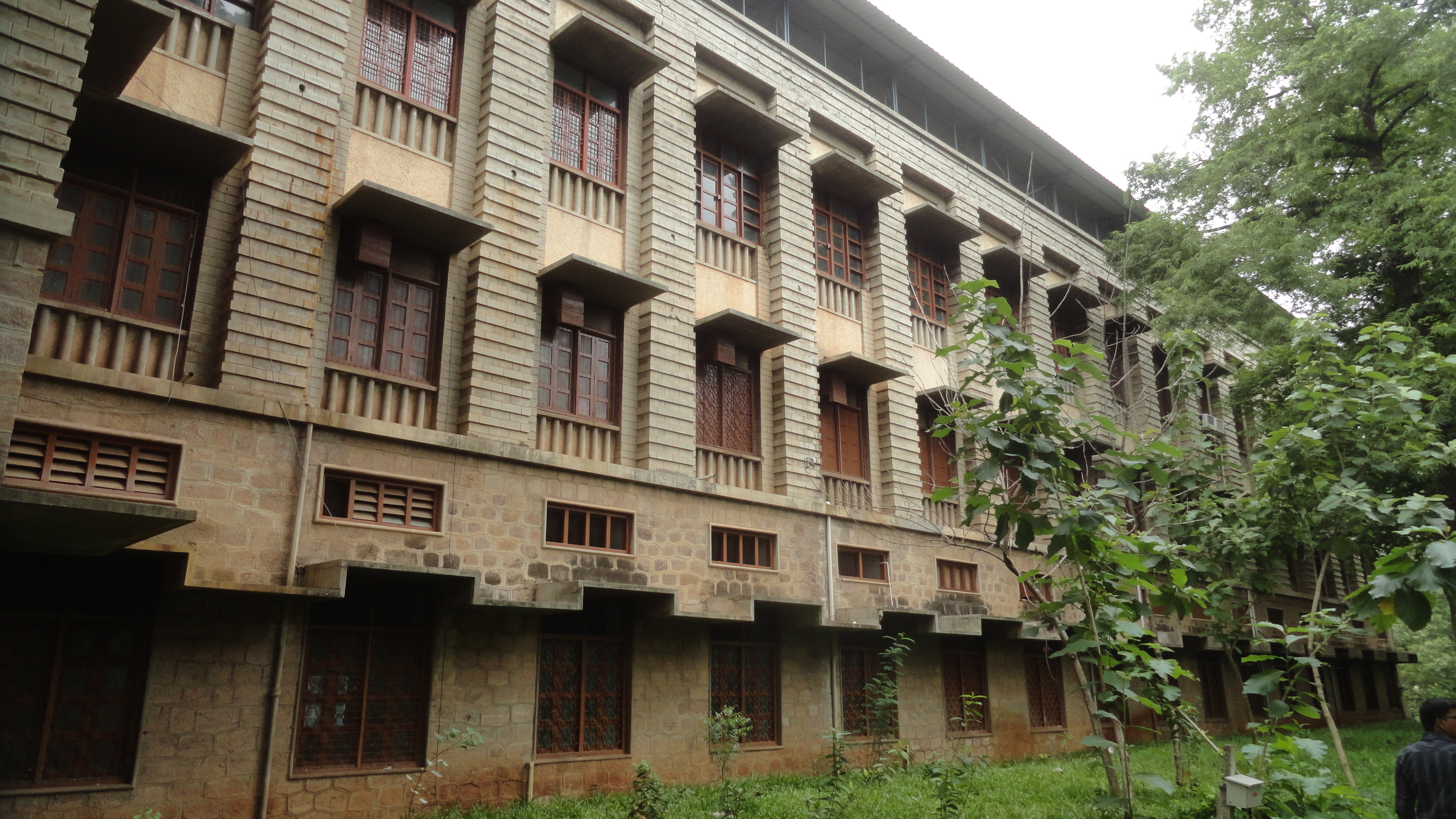 Andhra layola college